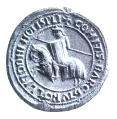 James I of Aragon